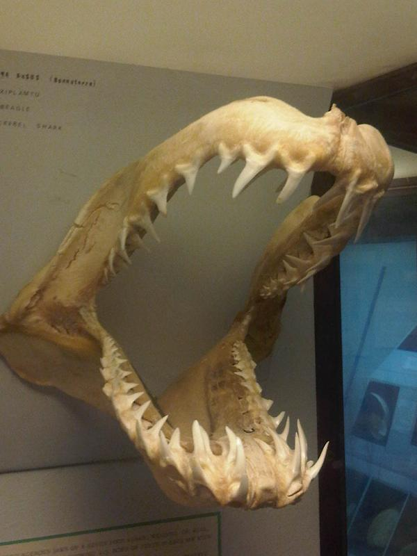 Porbeagle (Lamna nasus) jaw with teeth at the National Museum of Natural History, Vilhena Palace, Republic of Malta.